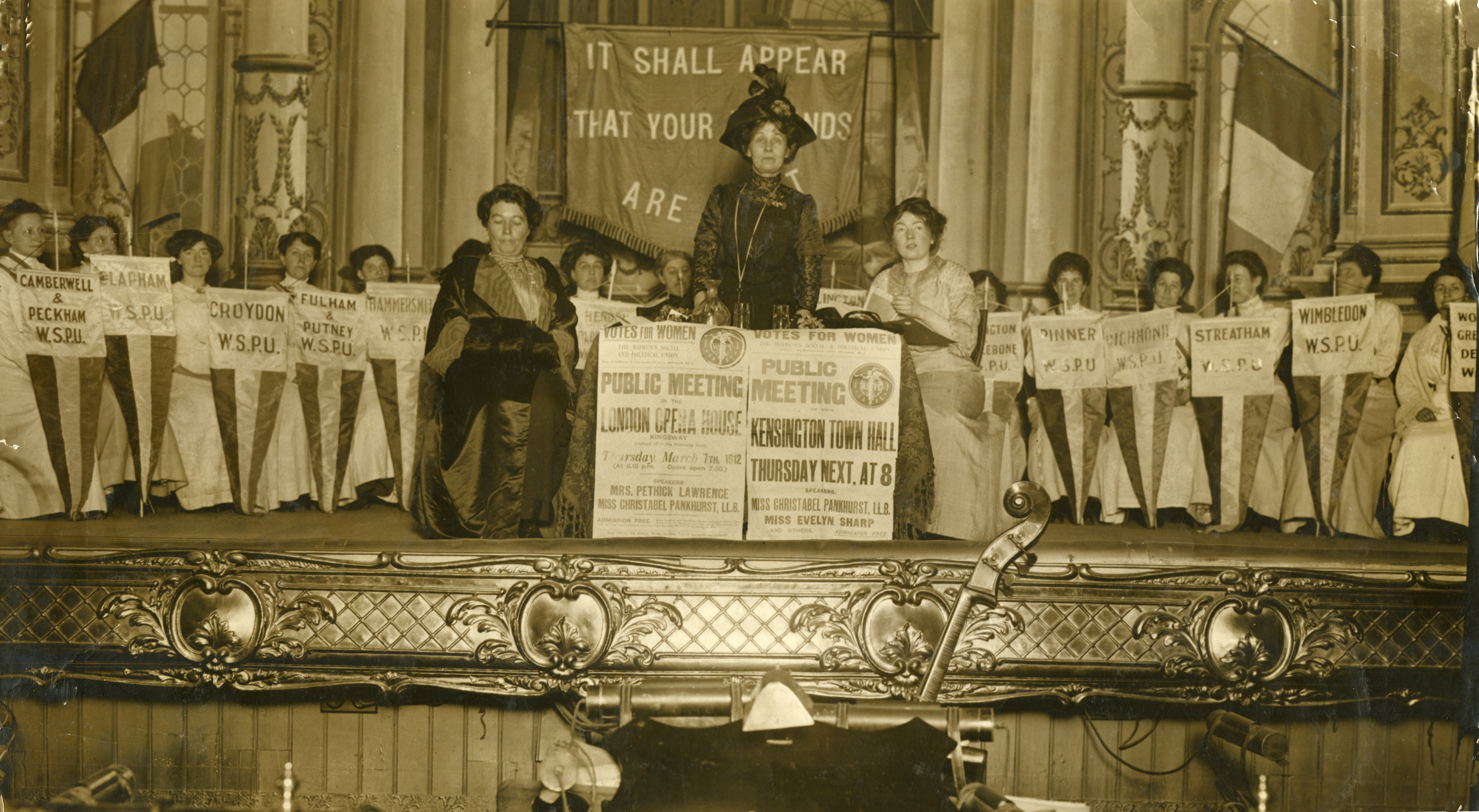 7JCC/O/02/004aPhotograph, printed, paper, monochrome, Mrs Pankhurst speaking at the London Pavilion, flanked by Emmeline Pethick Lawrence and Christabel Pankhurst, with representatives of WSPU branches also on the platform; printed on reverse 'General Press Photo Company, 2 Bream's Buildings, Chancery Lane. Telegrams: 'Illupresto', London; Telephone: City.. Please acknowledge GPP'